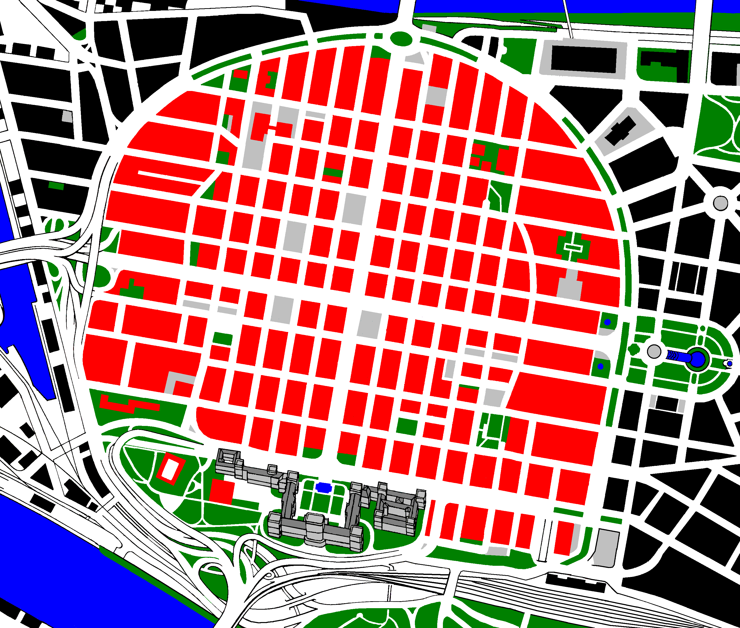 squares of Mannheim centre in Germany at the Rhine river